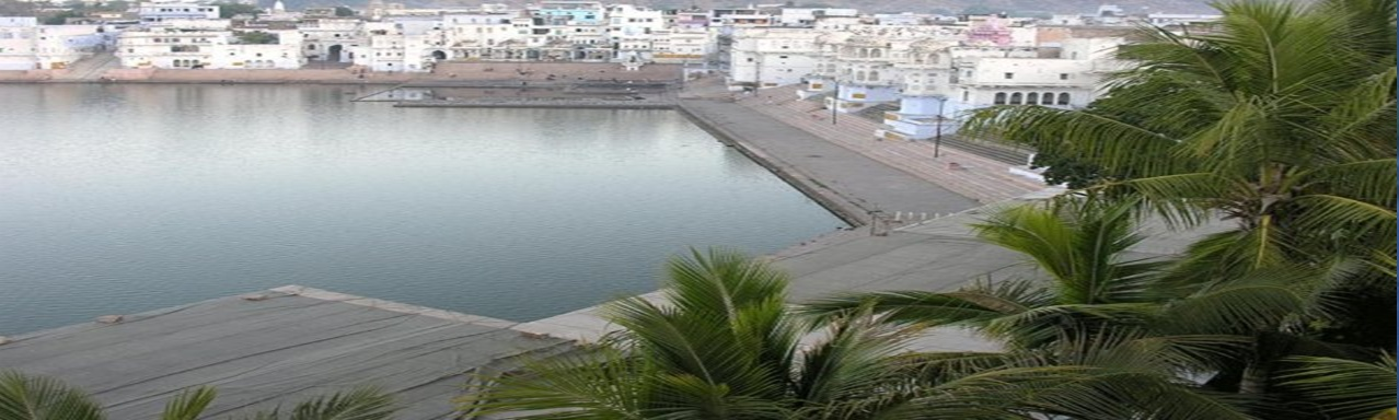 ajmer-pushkar